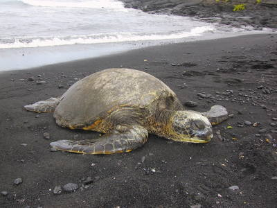 I contacted the author after I found the image on this webpage